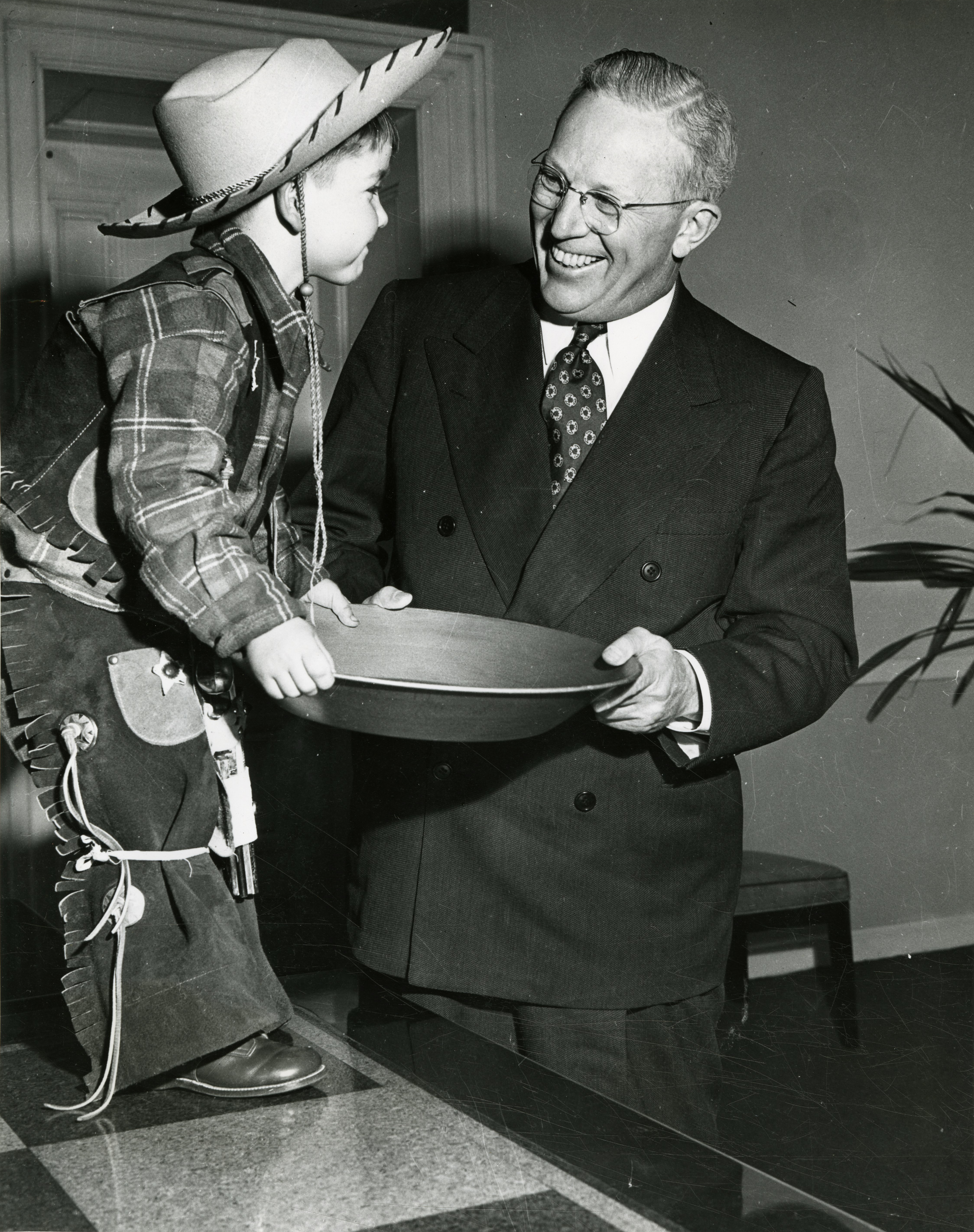 California Governor Earl Warren with a small boy dressed as a prospector. As this was taken by the California Centennials Commission, it was likely part of a Gold Rush centennial celebration.